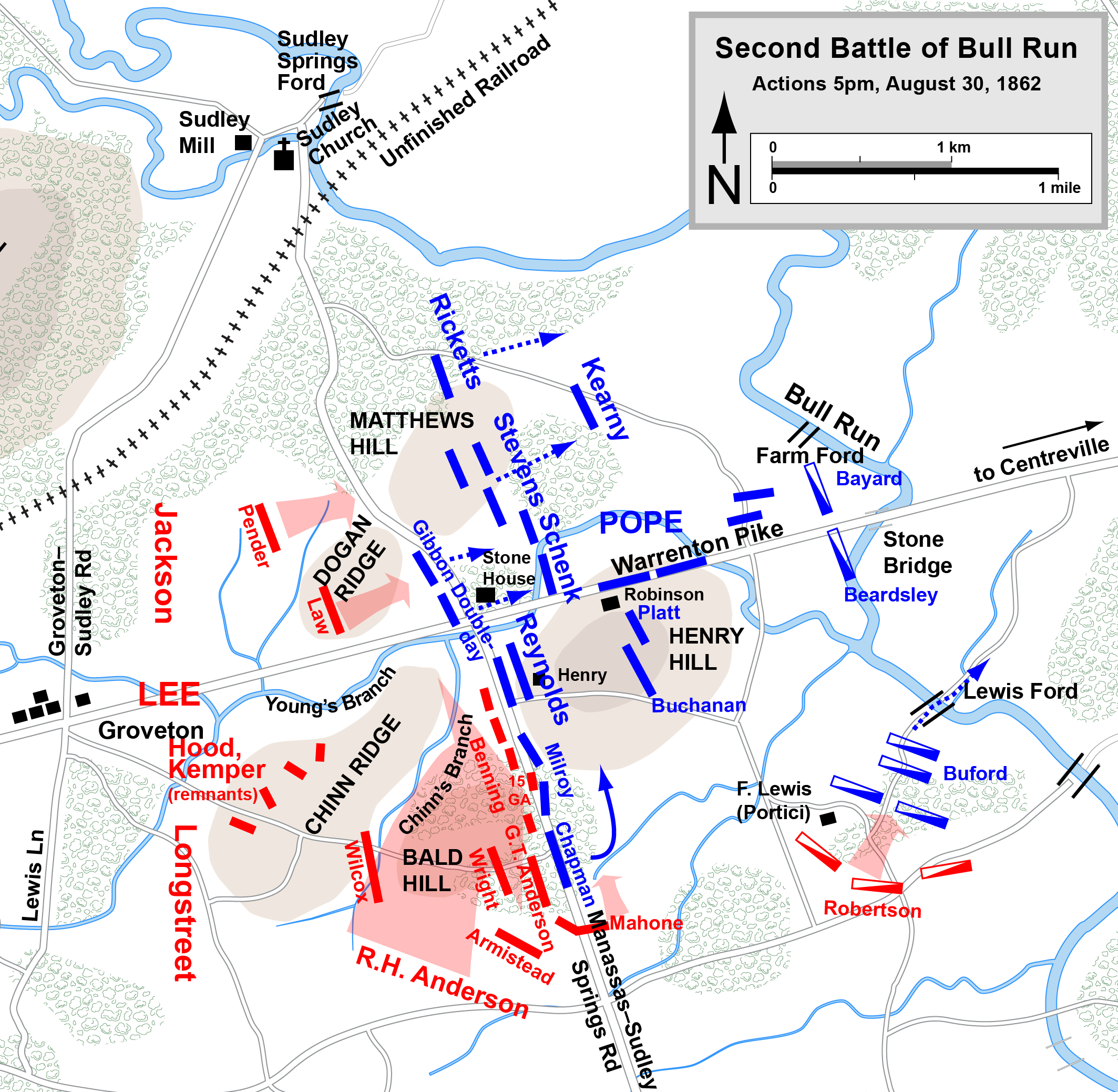 Map of the Second Battle of Bull Run of the American Civil War.